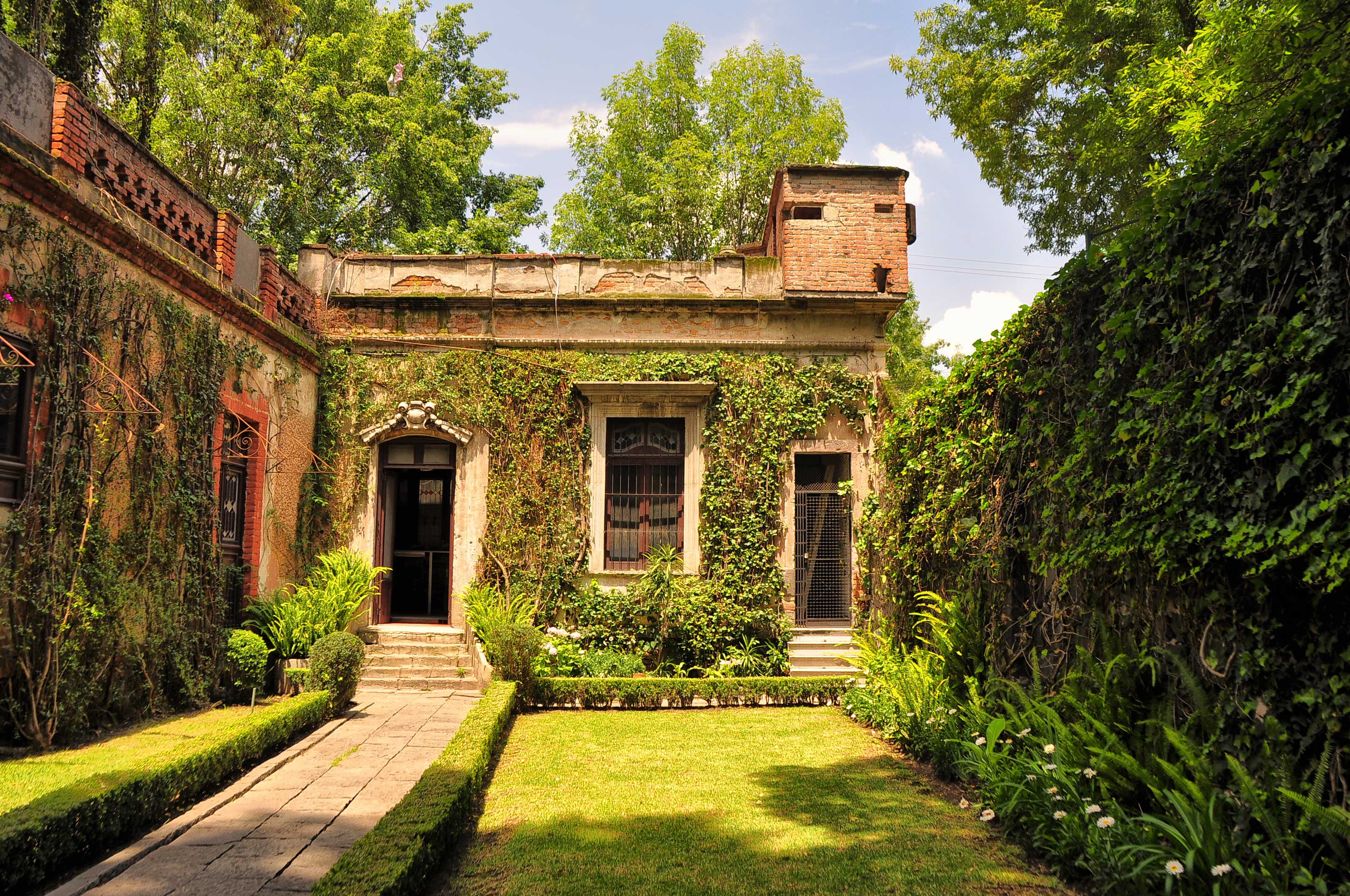 The Gun Tower didn't save him.